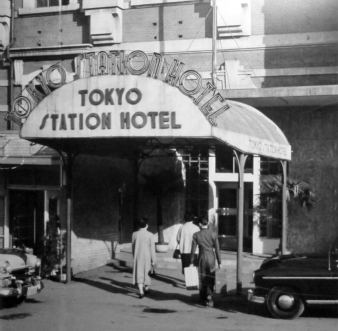 Front of Tokyo station hotel in 1950. (Some image reproduction artifacts have been digitally muted.)